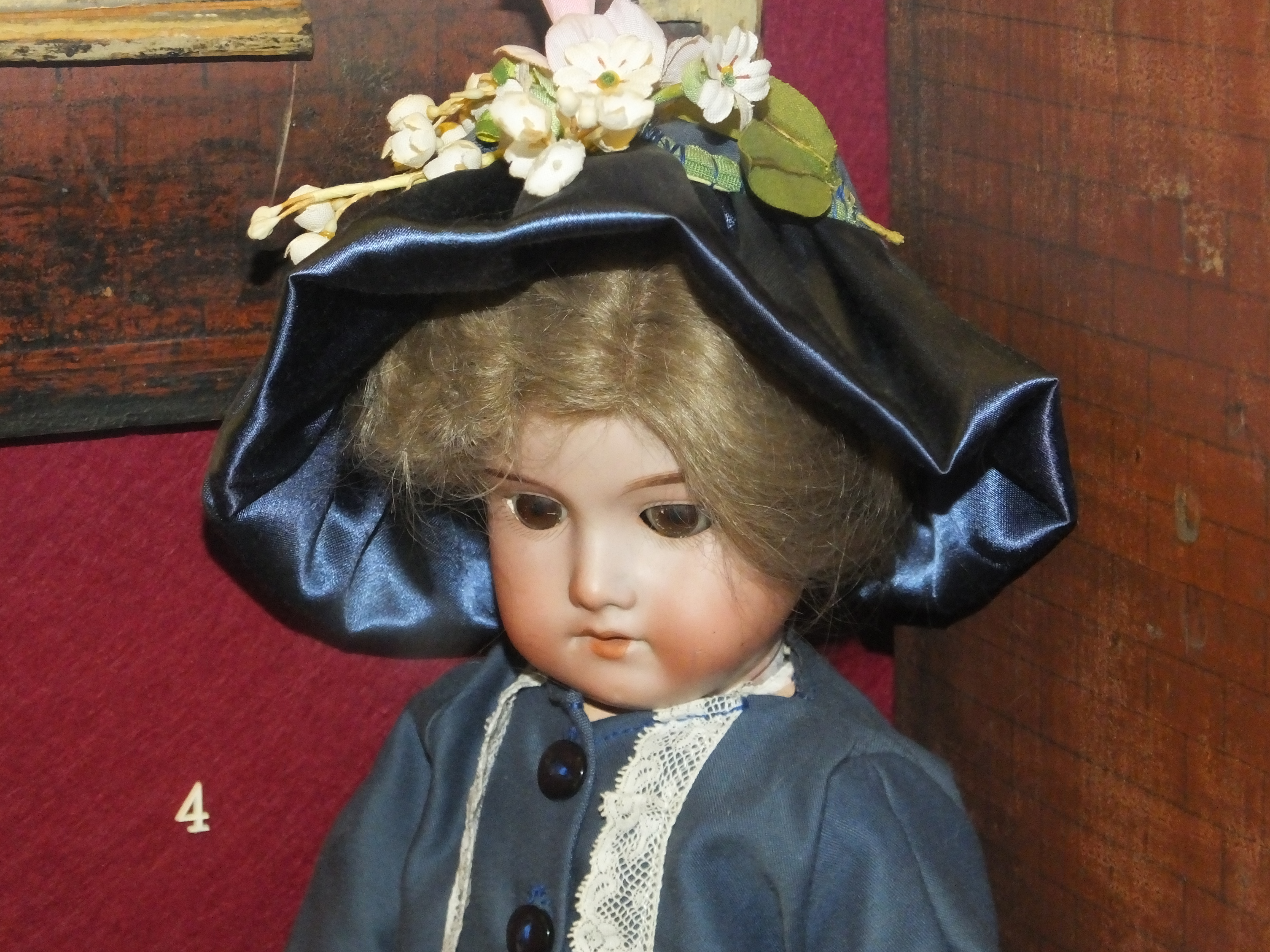 Doll from the collection of the Guildhall Museum in Rochester, Kent. Armand Marseille Bisque- Composition Body